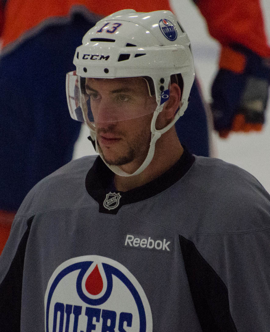 Steve Pinizzoto at an Edmonton Oilers practice, Sept. 27, 2014